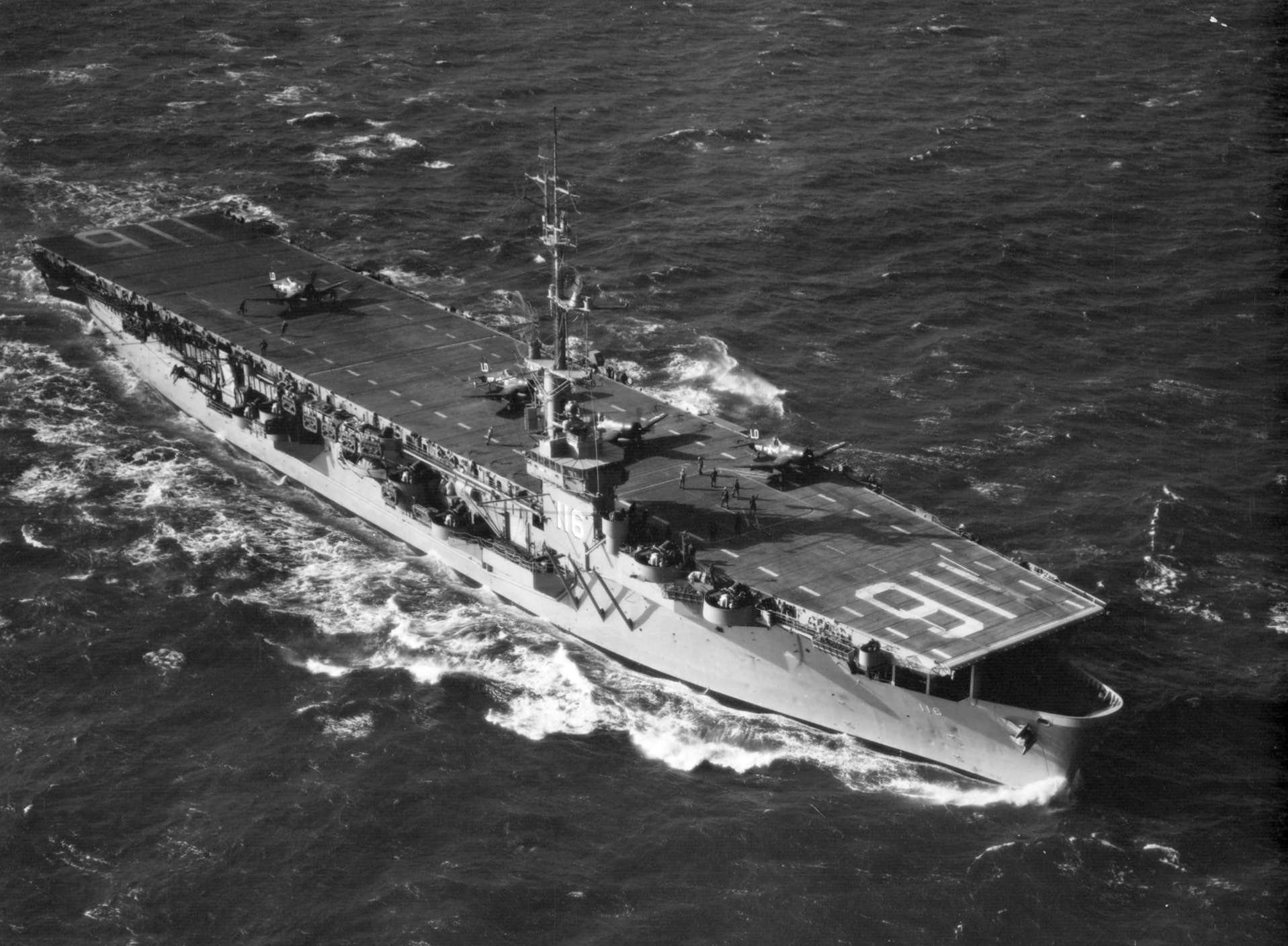 The U.S. Navy escort carrier USS Badoeng Strait (CVE-116) underway off Korea on 13 January 1952 operating Vought F4U Corsairs of Marine Fighter Squadron 212 (VMF-212).